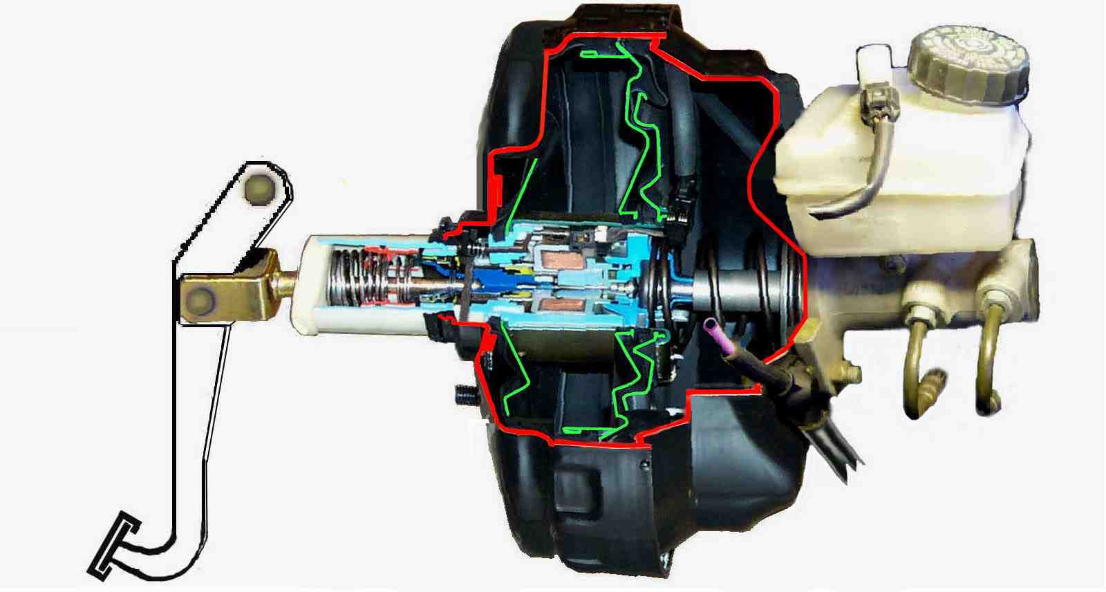 Vacuum servo brake cutaway